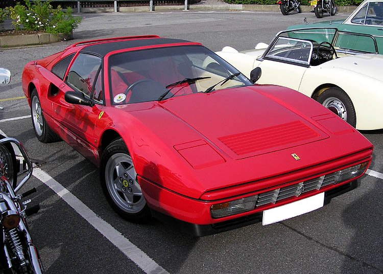 1989 3.2 litre Ferrari 328 GTS Targa at a car rally at Aust Services, Bristol, England. Taken by Adrian Pingstone in October 2004 and released to the public domain.